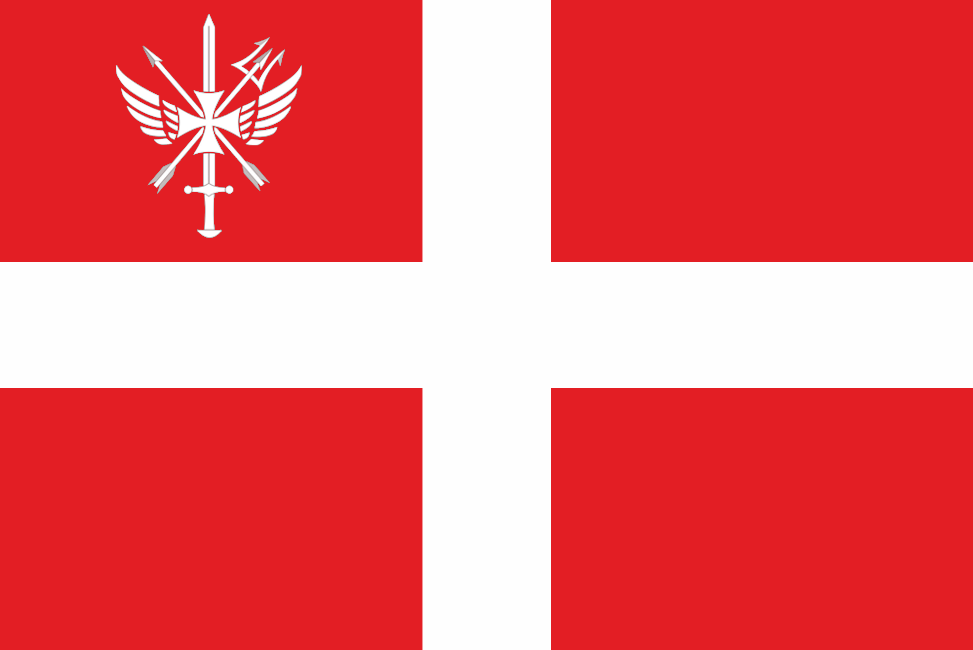 Raw version of the current official banner